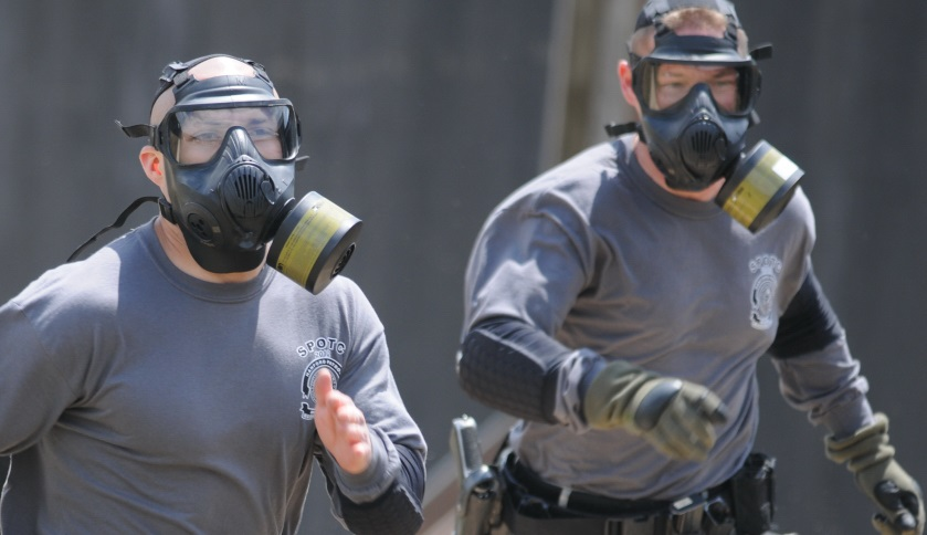 ProFor run an obstacle course while wearing CBRN masks at SPOTC 2012 in South Carolina